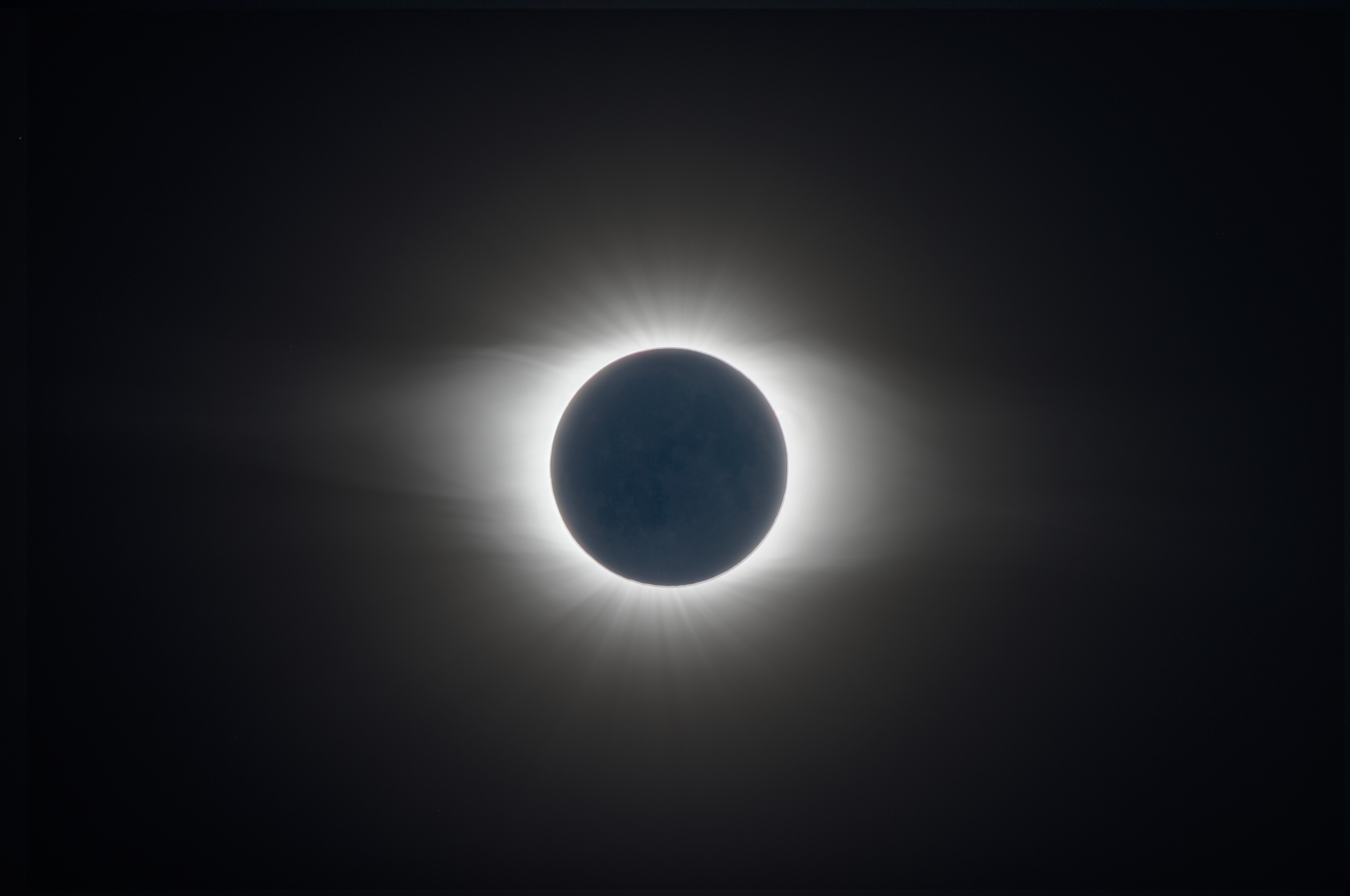 This image – combined of many exposures – captures 'totality' during the 2 July 2019 total solar eclipse, the moment that the Moon passes directly in front of the Sun from Earth's perspective, blocking out its light and allowing the Sun's extended atmosphere – the corona – to be seen. The image is a high dynamic range composition of 10 images with exposure times of 1/800, 1/400, 1/200, 1/00, 1/50, 1/25, 1/13, 1/6, 0.3 and 0.6 seconds at ISO 100. The images were taken with a Canon EOS 200D DSLR mounted on a SkyWatcher Esprit 80 ED using Solar Eclipse Maestro software. The processing of this image highlights the intricate detail of the corona, its structures shaped by the Sun's magnetic field. Some details of the lunar surface can also be seen.